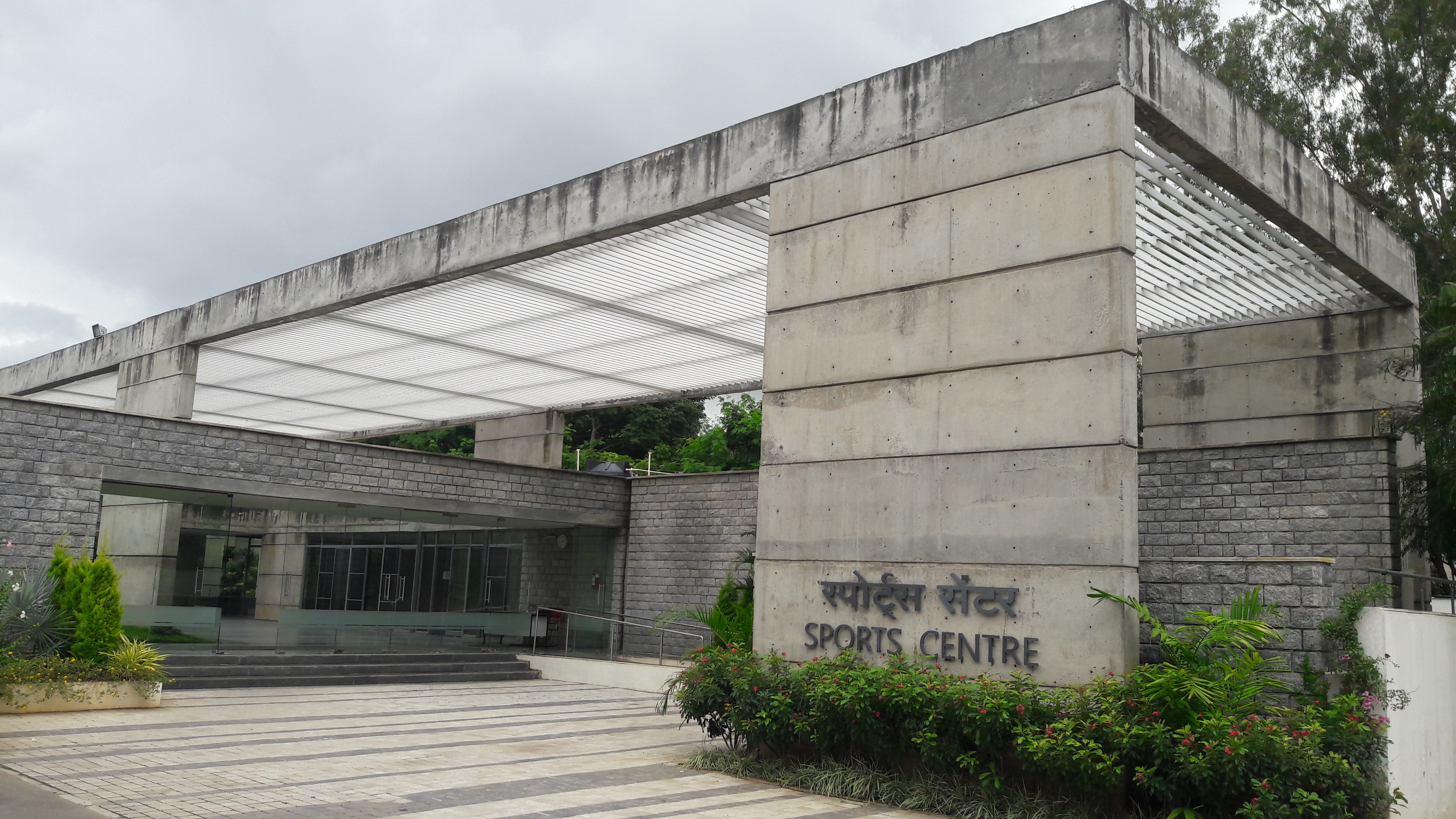 Photograph of the entrance to the Sports Centre at IIMB.